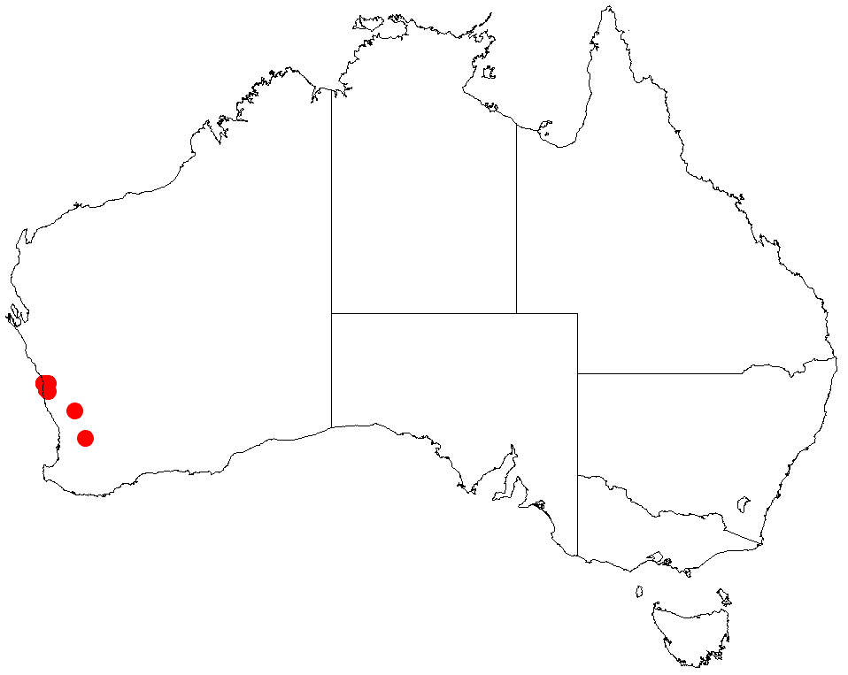 Acacia vittata occurrence data from Australasia Virtual Herbarium downloaded from on 8 December 2018